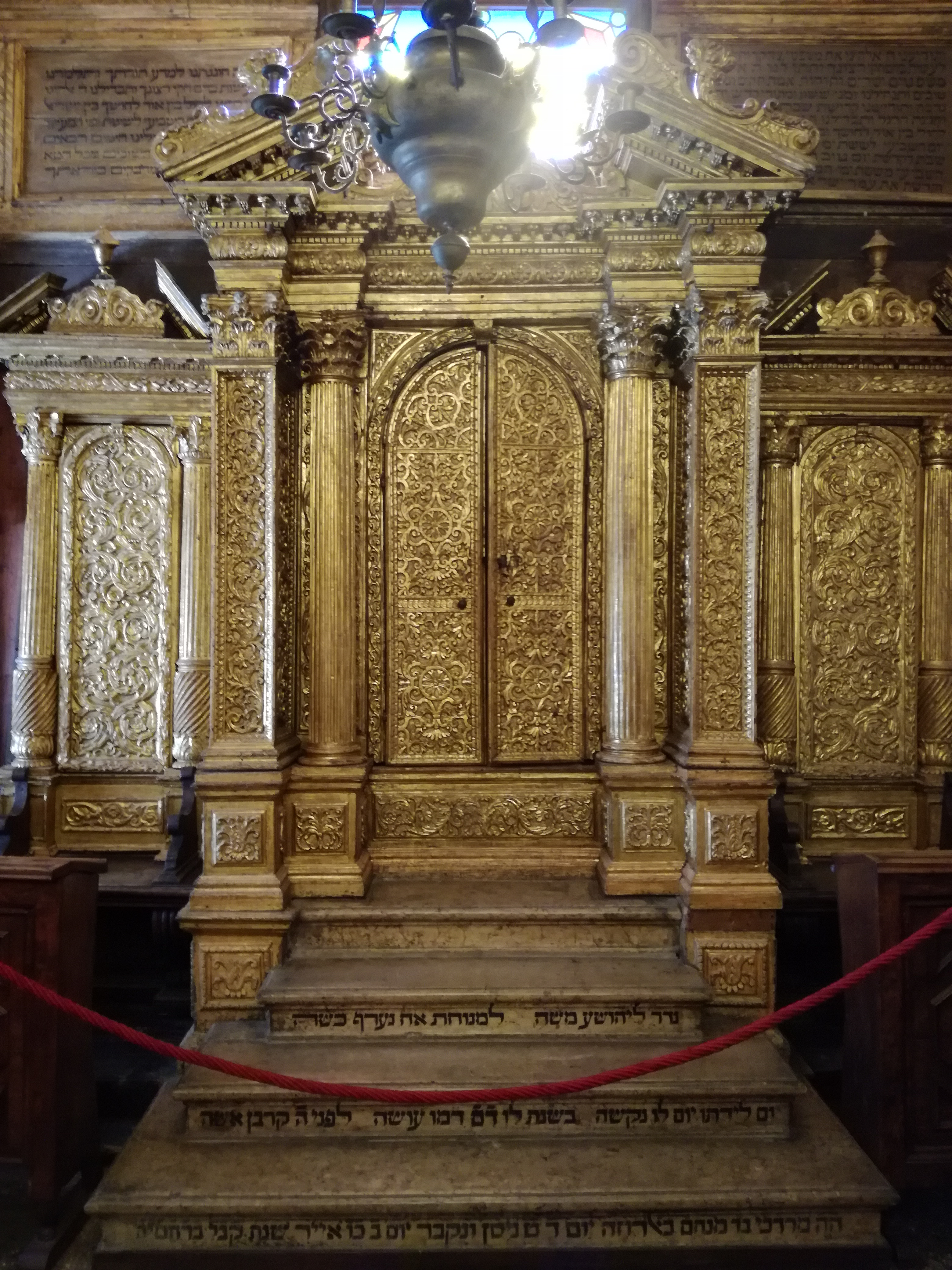 Picture of the Torah ark inside the Canton Synagogue (Venice). Late seventeenth century.